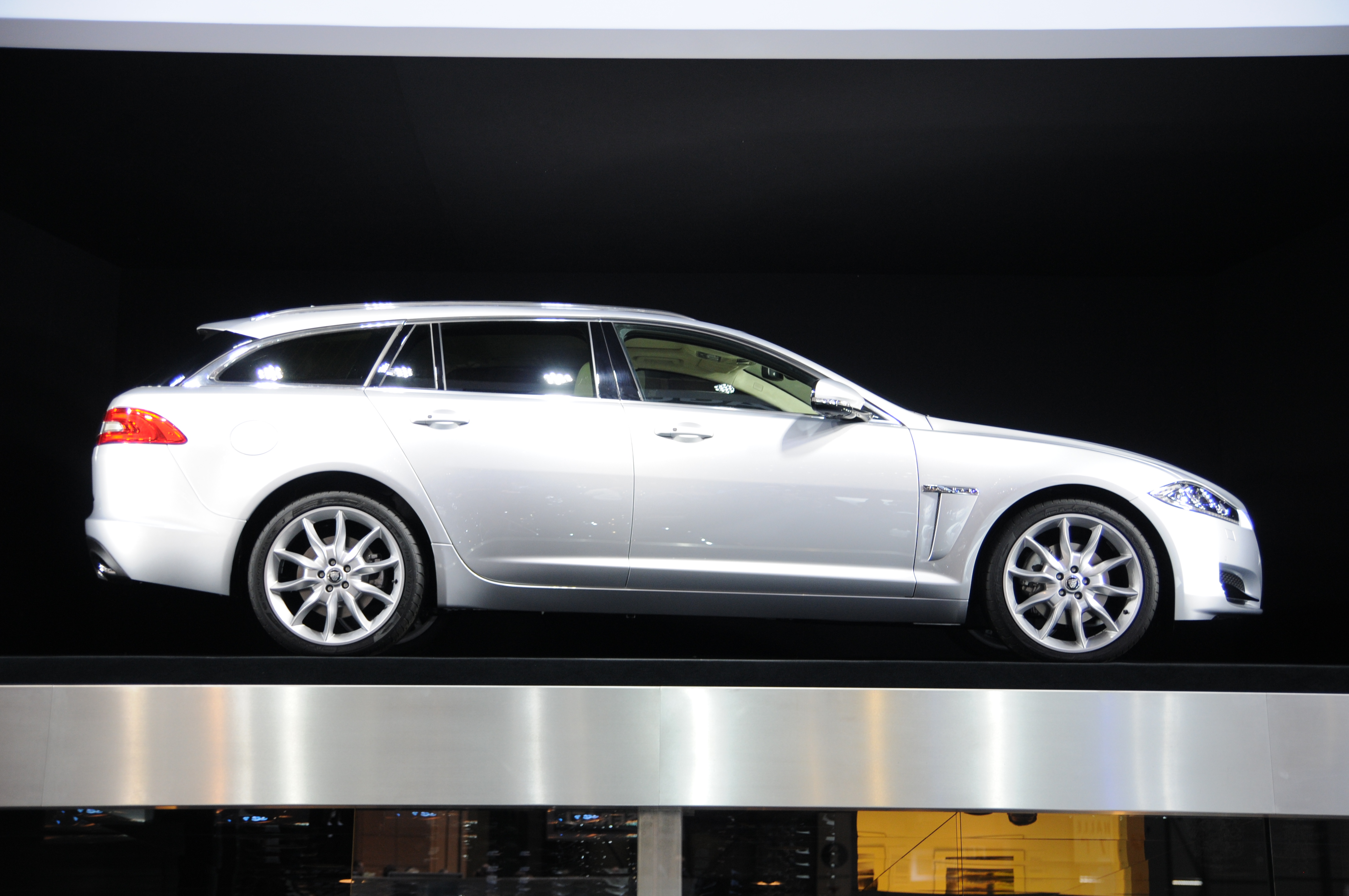 Geneva Motor Show 2012 (photos taken on the second press day)